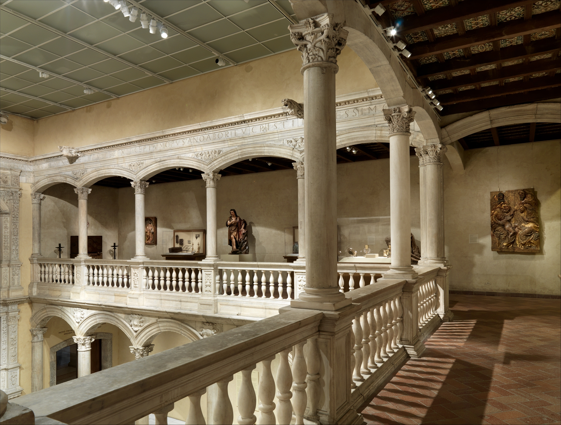 Spanish, Almería; Period room; Sculpture-Architectural